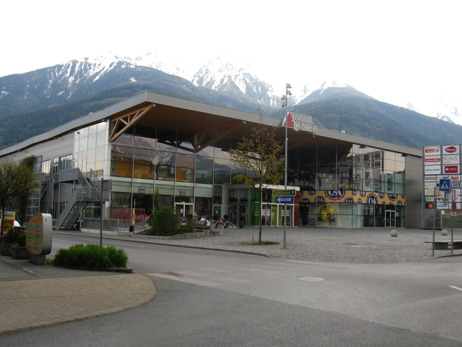 shopping centre "Inntalcenter" in Telfs, Austria